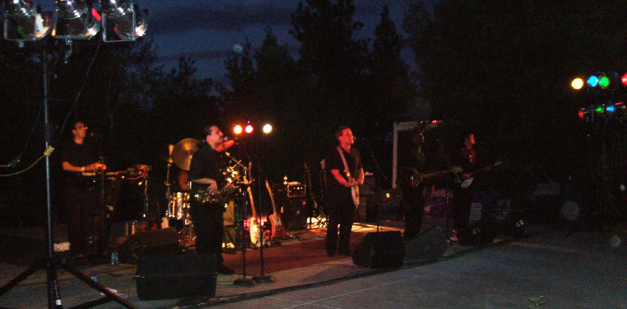 The US lineup of The English Beat in Truckee, CA.